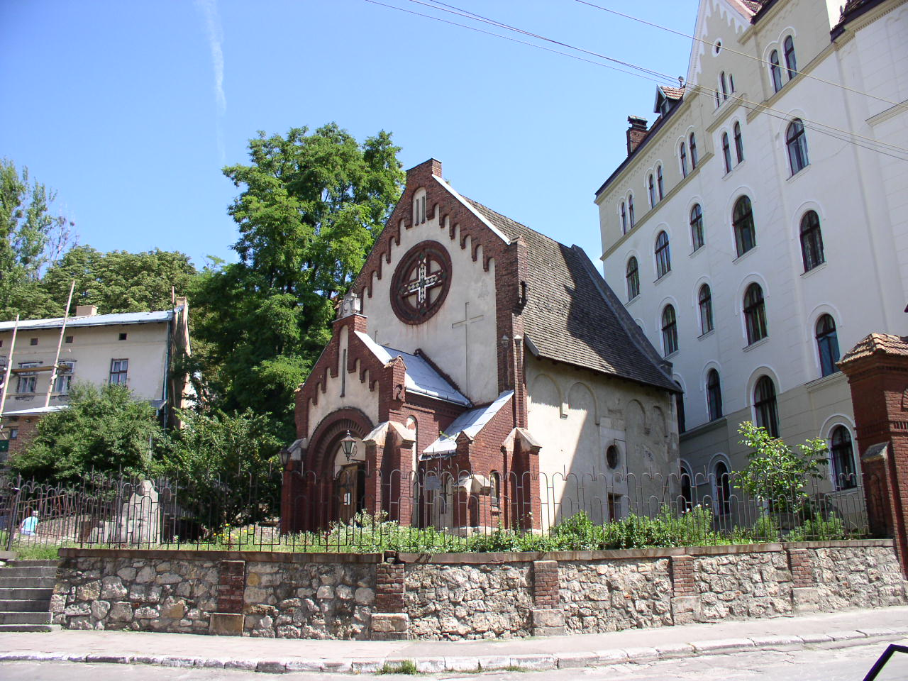 Church of John the Baptist. Lviv, Ukraine.